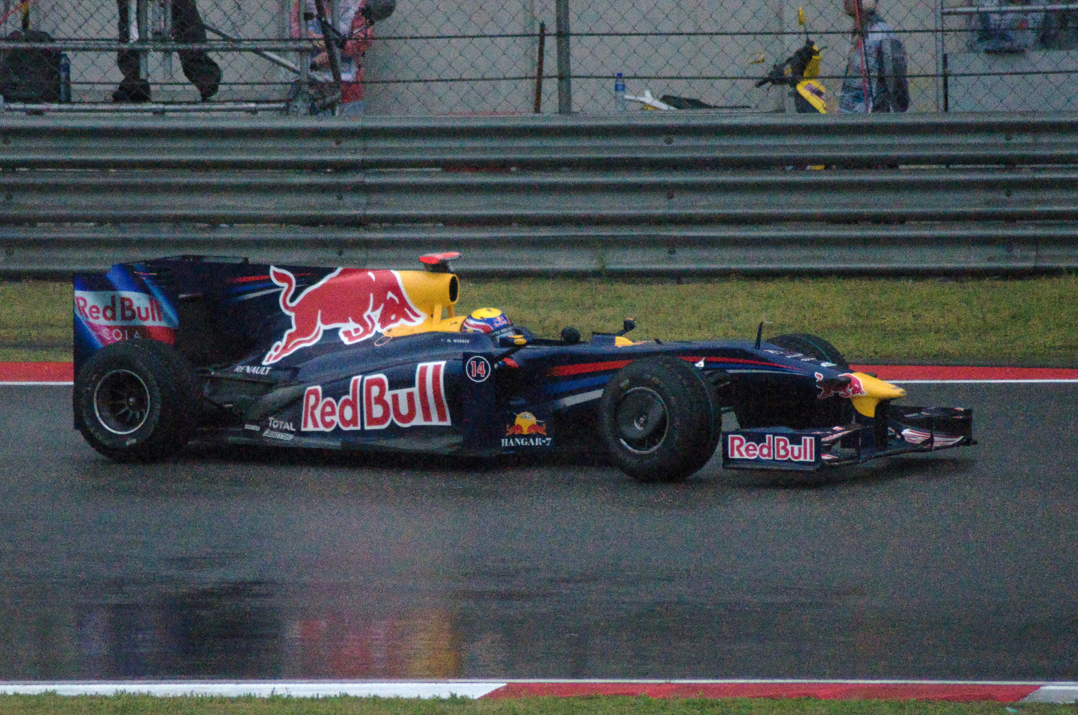 2009 Formula 1 Grand Prix of China - Shanghai Circuit